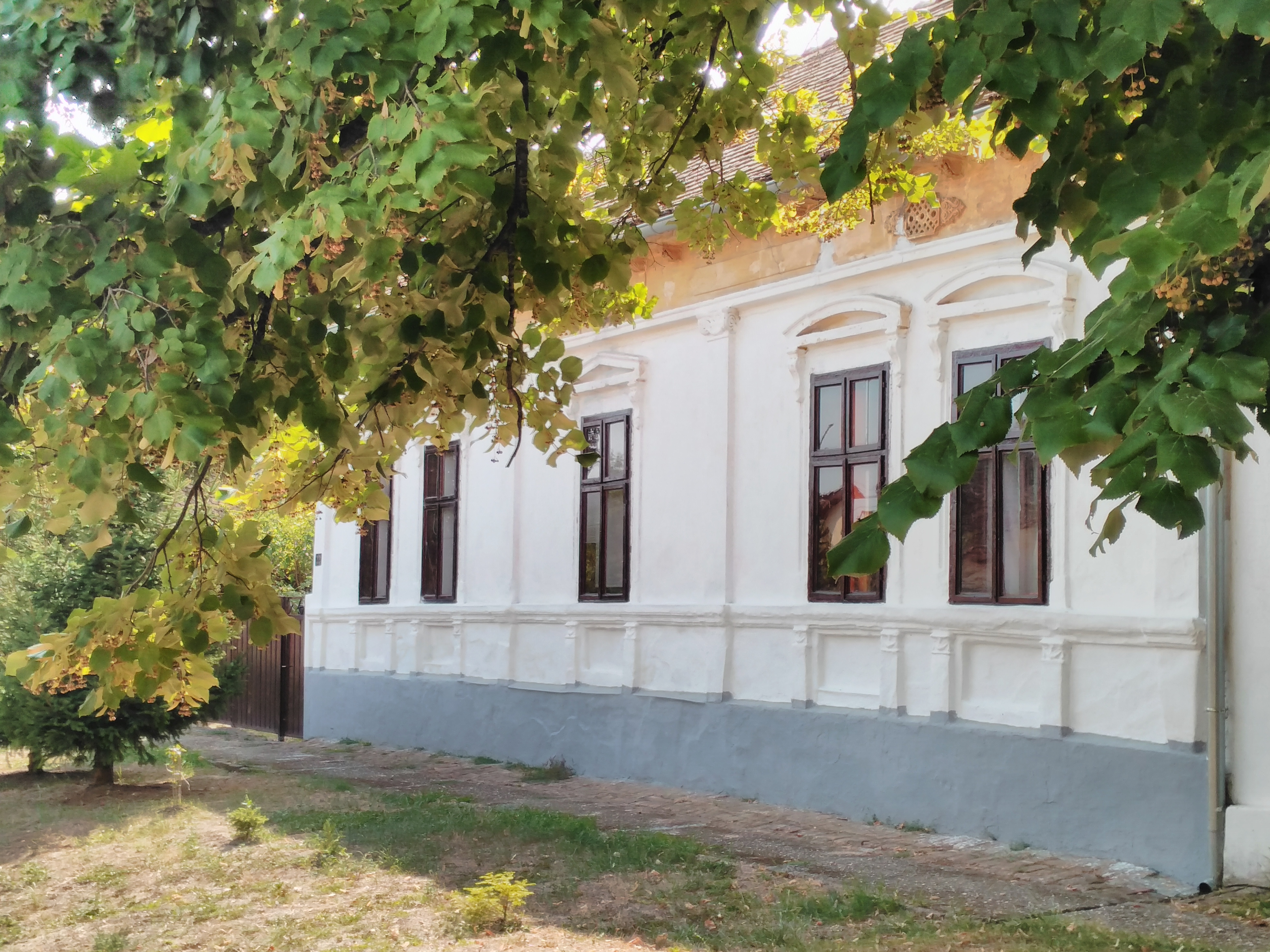 Banovci is a village in eastern Croatia, near the Serbian border with Serb ethnic majority.